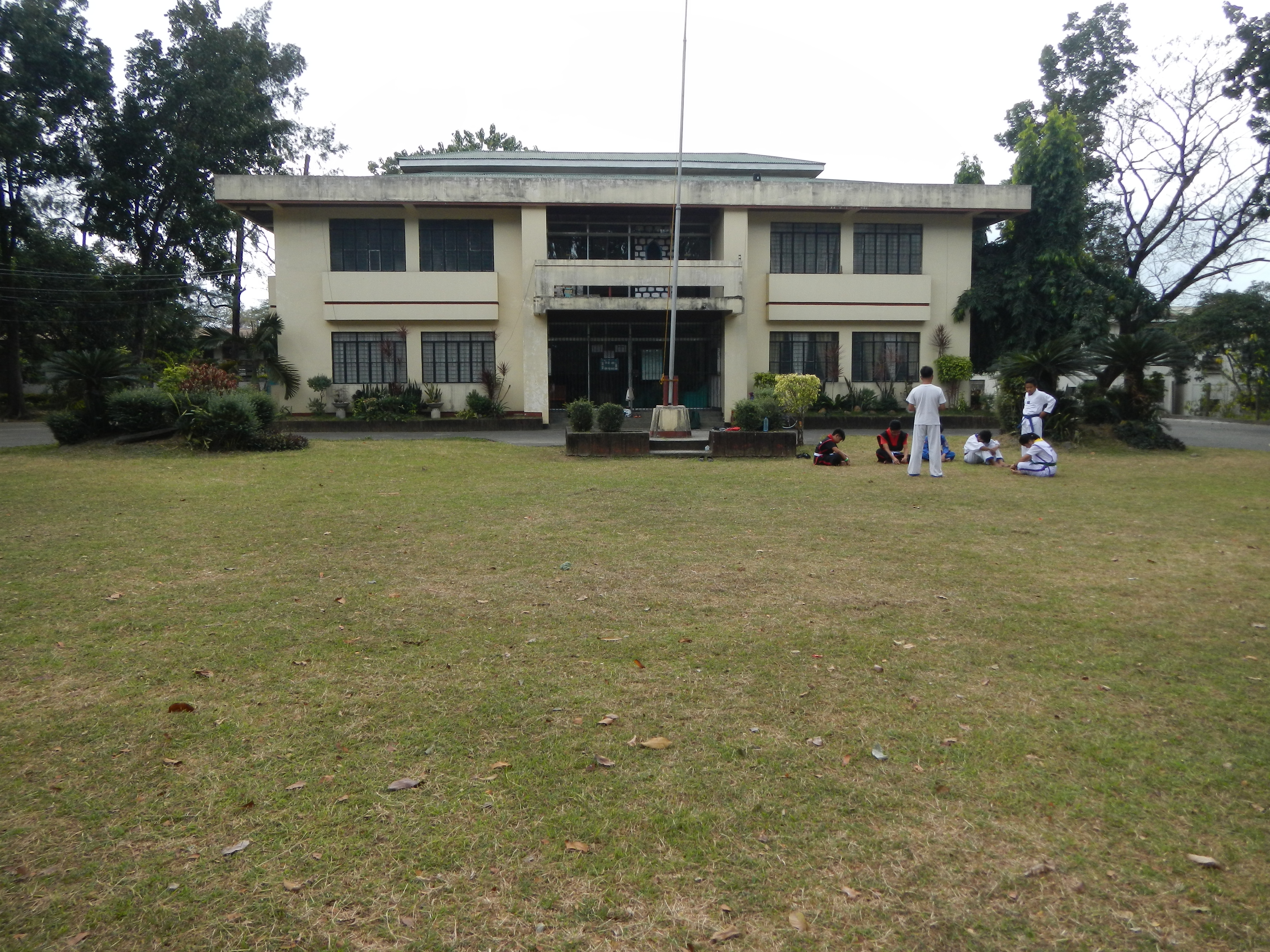 Upload Wizard photos of - Fortunato F. Halili National Agricultural School [1] is a government-funded college and high school in Barangay Guyong, Sta. Maria, Bulacan, [2] Philippines. Address: FFHNAS Rd, Santa Maria[3] with white flowers in this agricultural school and the giant ancient tamarind tree.